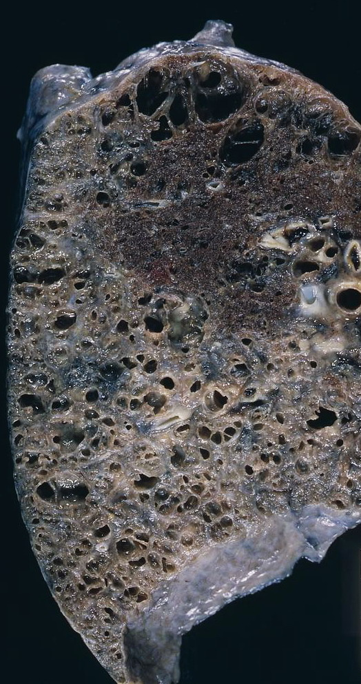 Honeycomb lung Dilated spaces separated by thick bands of fibrous connective tissue and resembling a bee's honeycomb. Thin-walled emphysematous bullae are seen at the apex of this lobe. Honeycomb lung is a common end stage of many types of chronic fibrosing interstitial lung diseases.